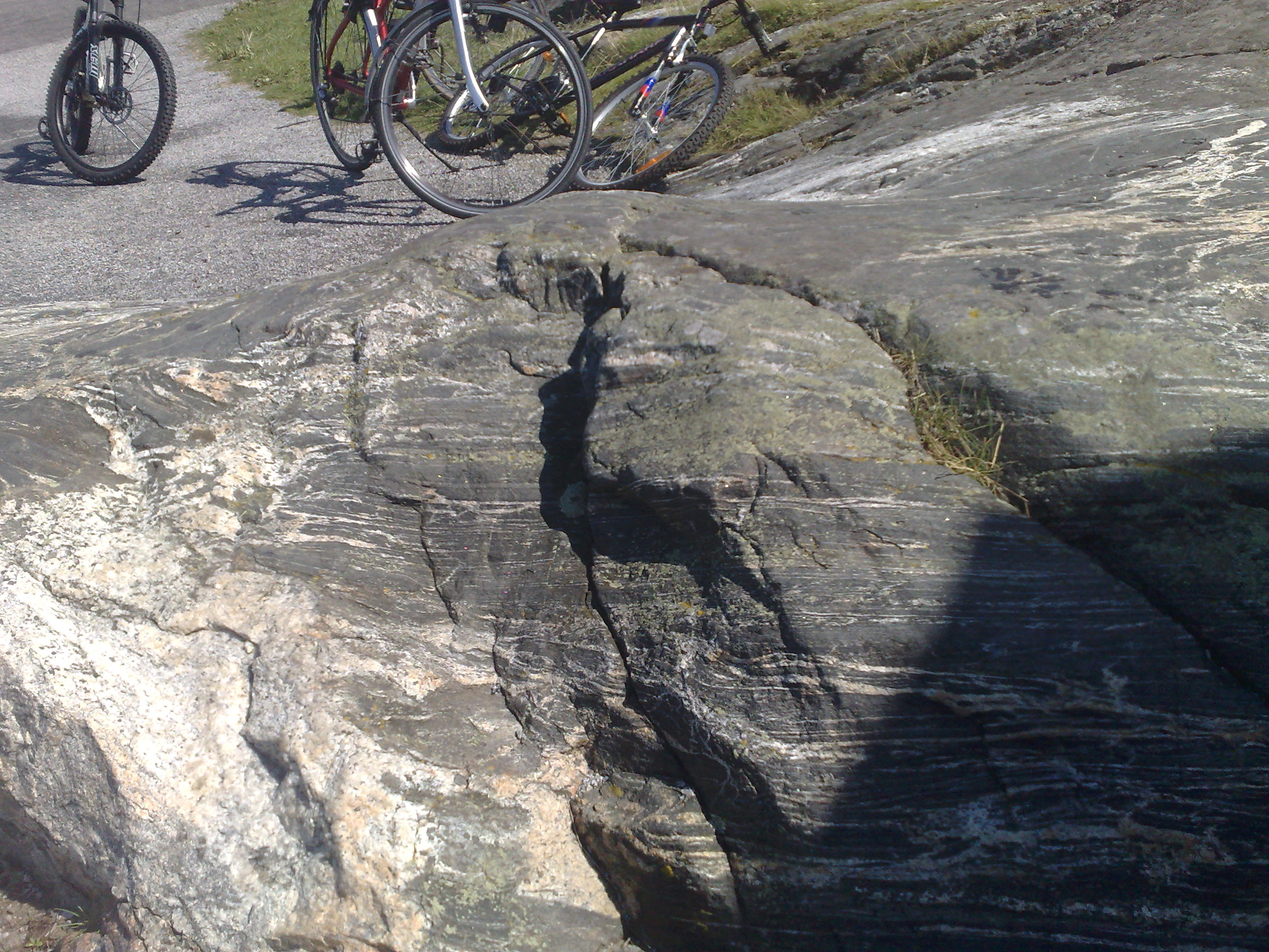 Migmatite, Tjörn, Sweden